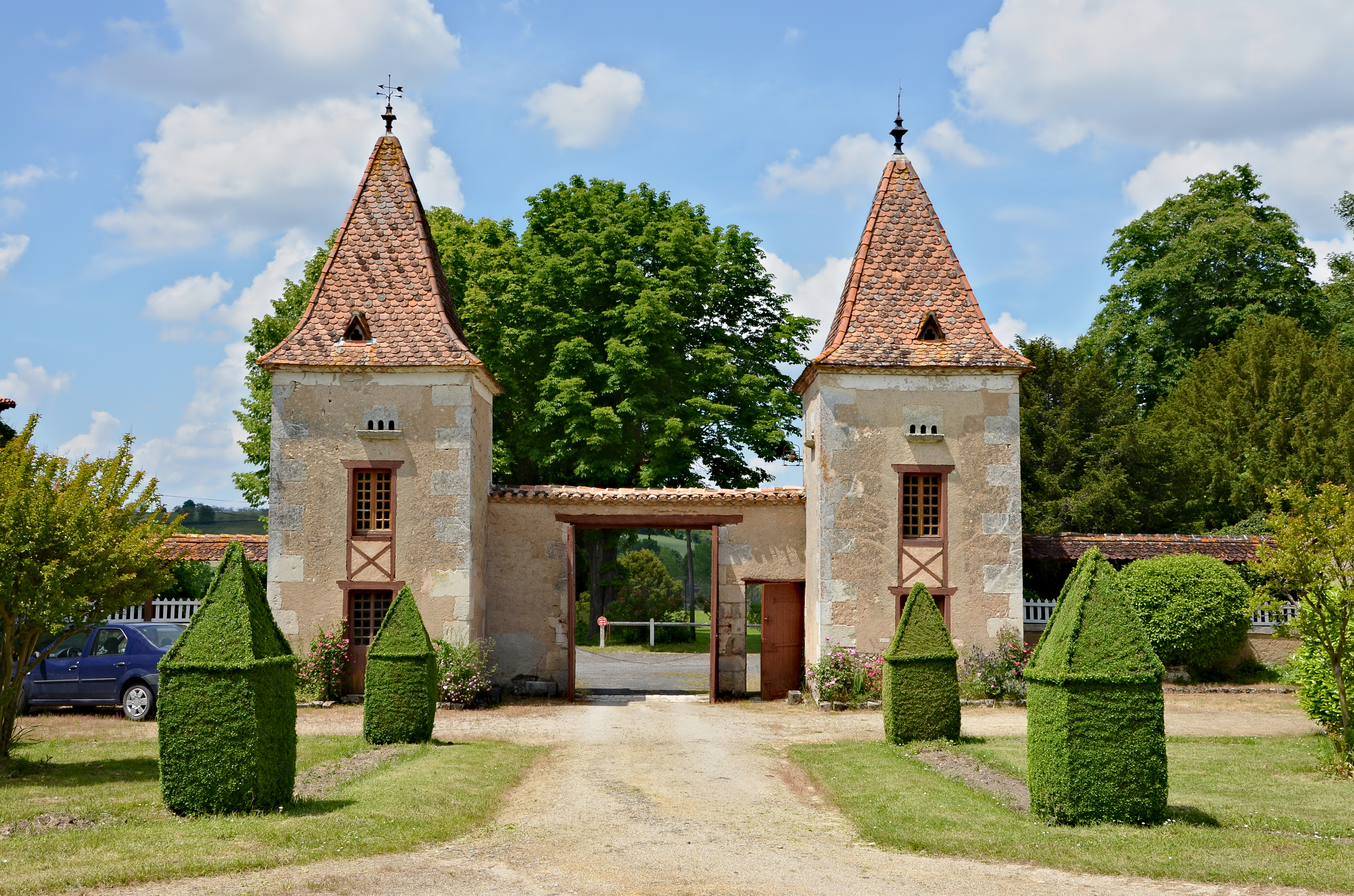 Logis de Chénard (ca. 1820), main entrance seen from the courtyard. Chavenat, Charente, France. .